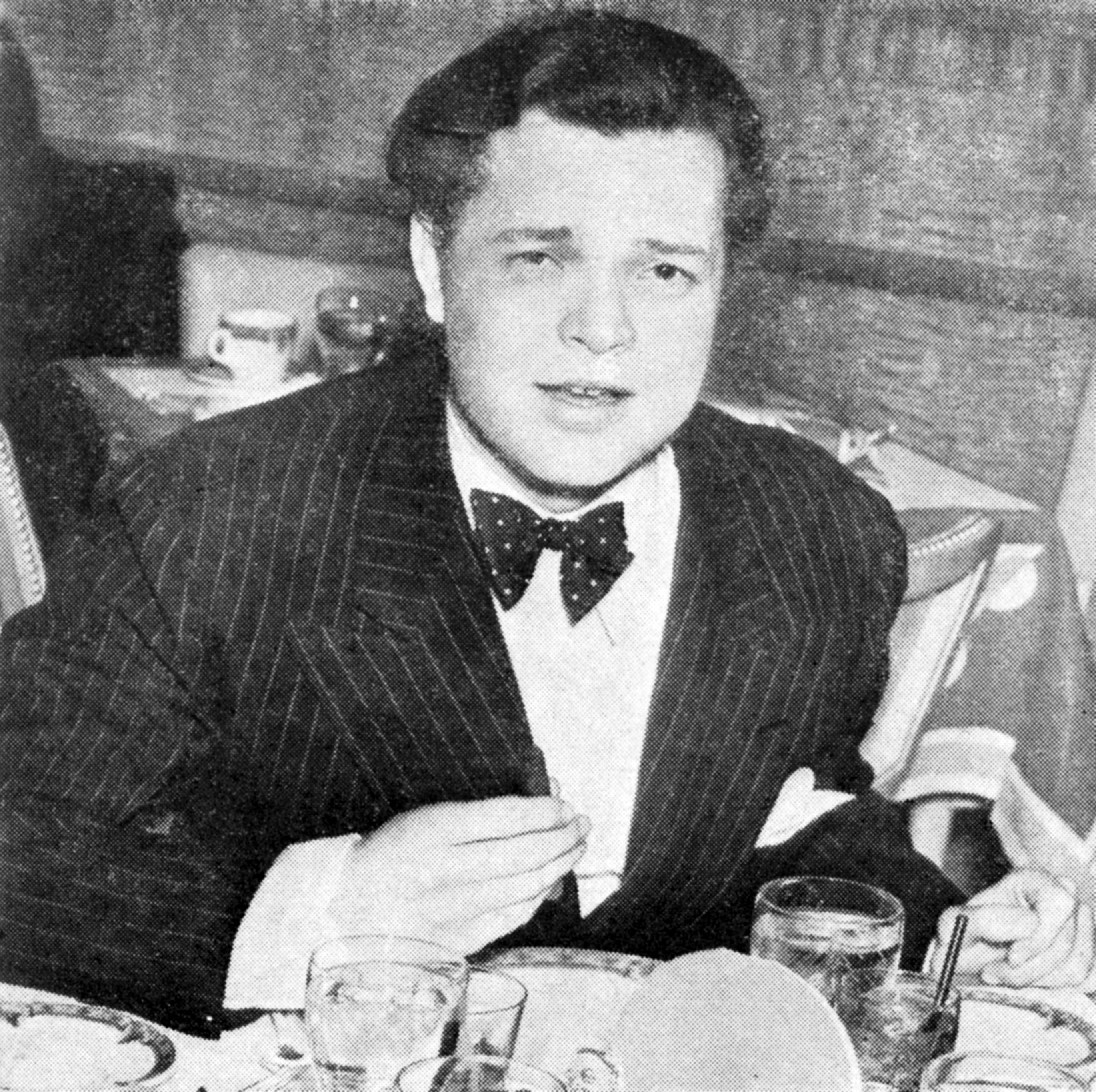 Photograph of Orson Welles seated at a table in a New York City club. Photograph heads the first article in the magazine, "Me, Myself and I", about that week's debut of the CBS Radio series The Mercury Theatre on the Air.